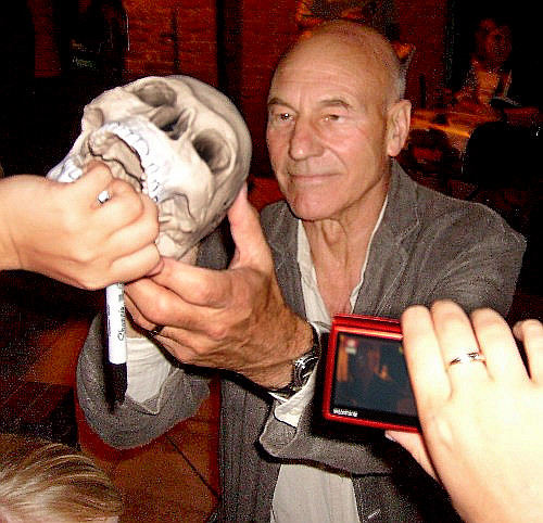 Patrick Stewart signing autographs following a production of Hamlet by the RSC at the Courtyard Theatre in Stratford-upon-Avon[1] Permission given to Wikipedia to use it.